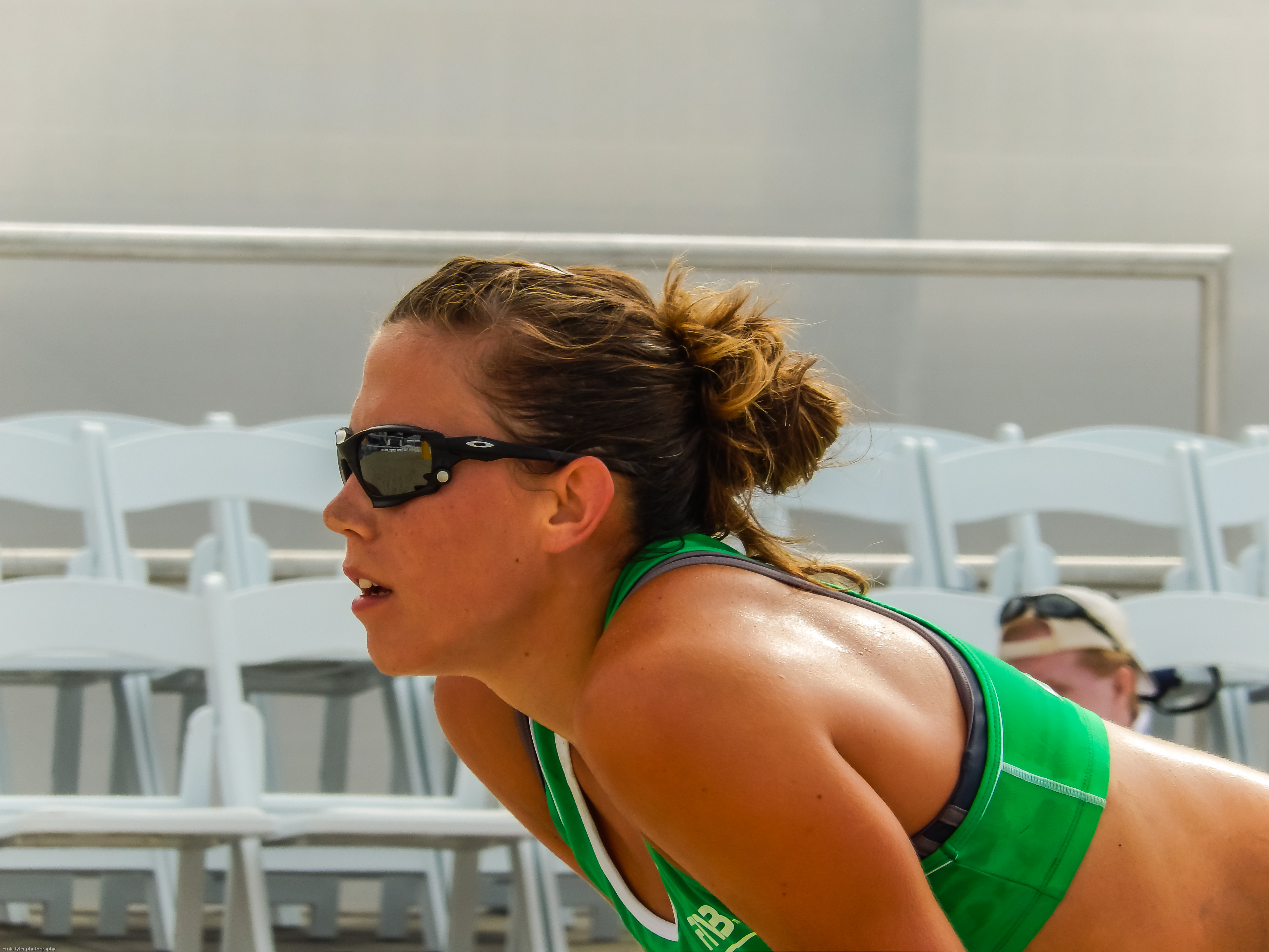 Viktoria Orsi Toth at the Long Beach Grand Slam 2013